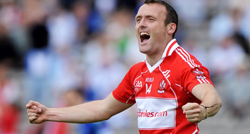 Derry Gaelic footballer Paddy Bradley celebrates scoring against Monaghan in the 2009 All-Ireland Championship (Qualifier Round 2).